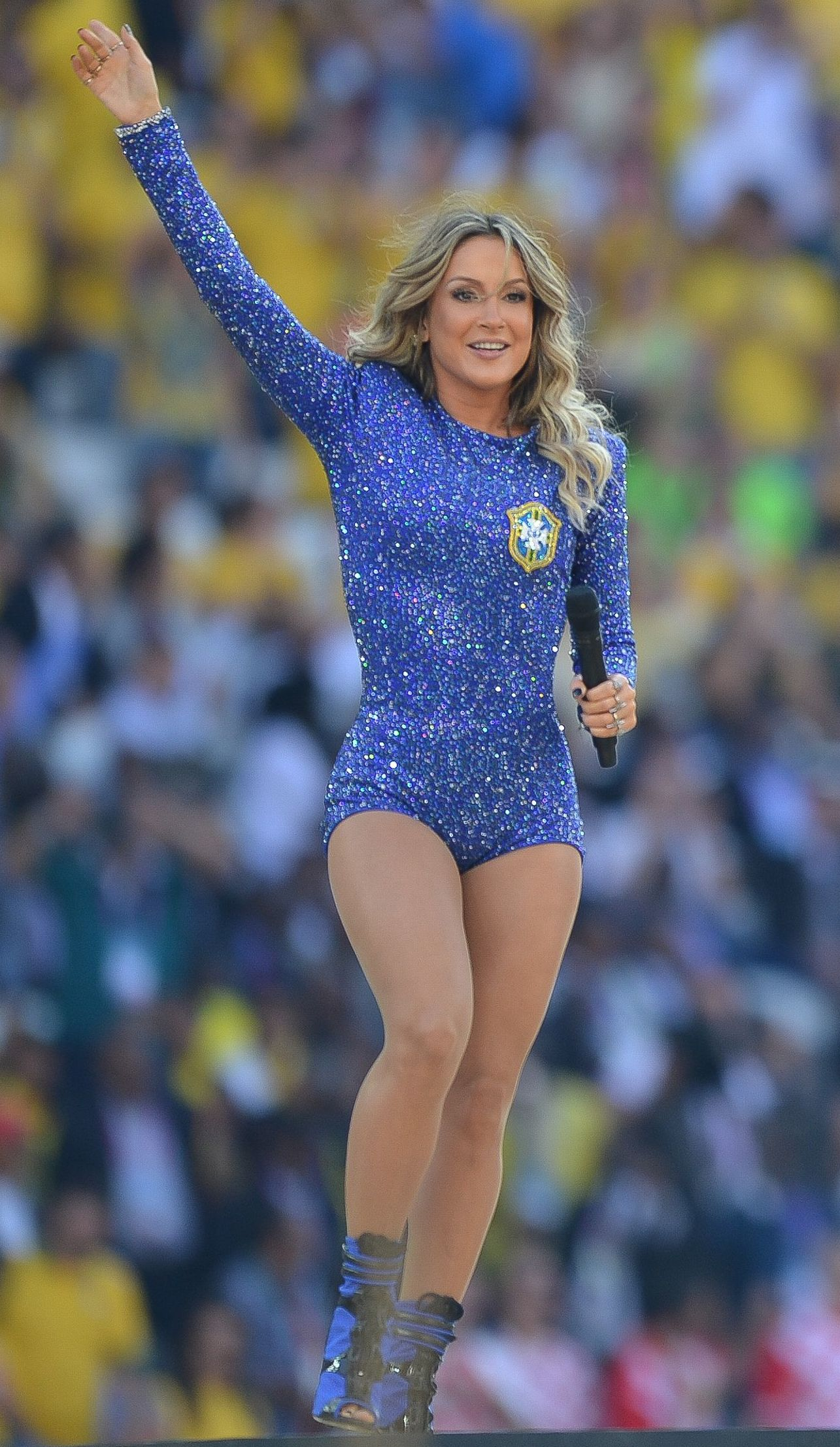 The opening ceremony of the FIFA World Cup 2014